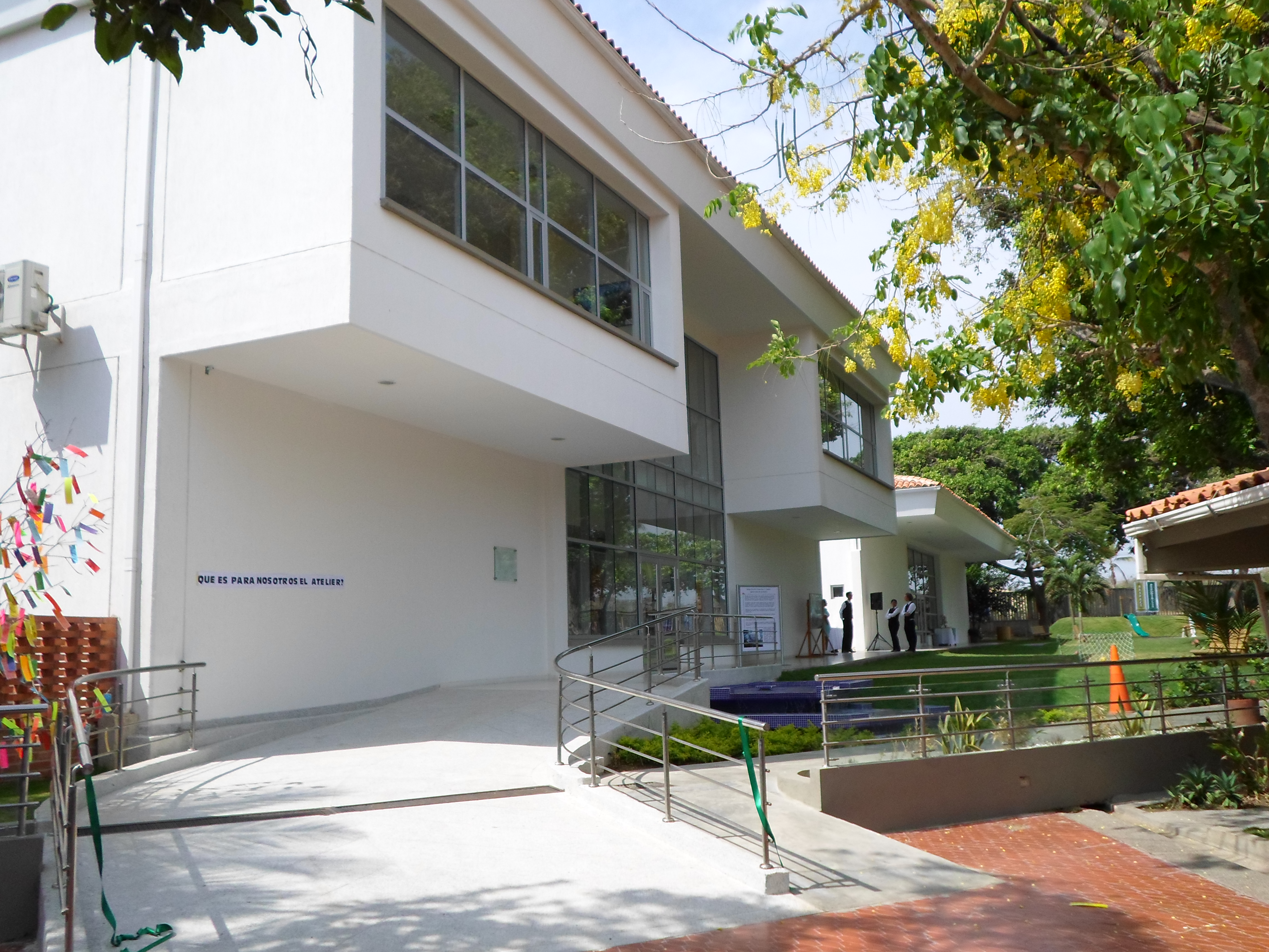 Atelier and Gross Motor Building. Built in 2014, it includes an atelier, technology exploration center, and Gross Motor facilities.